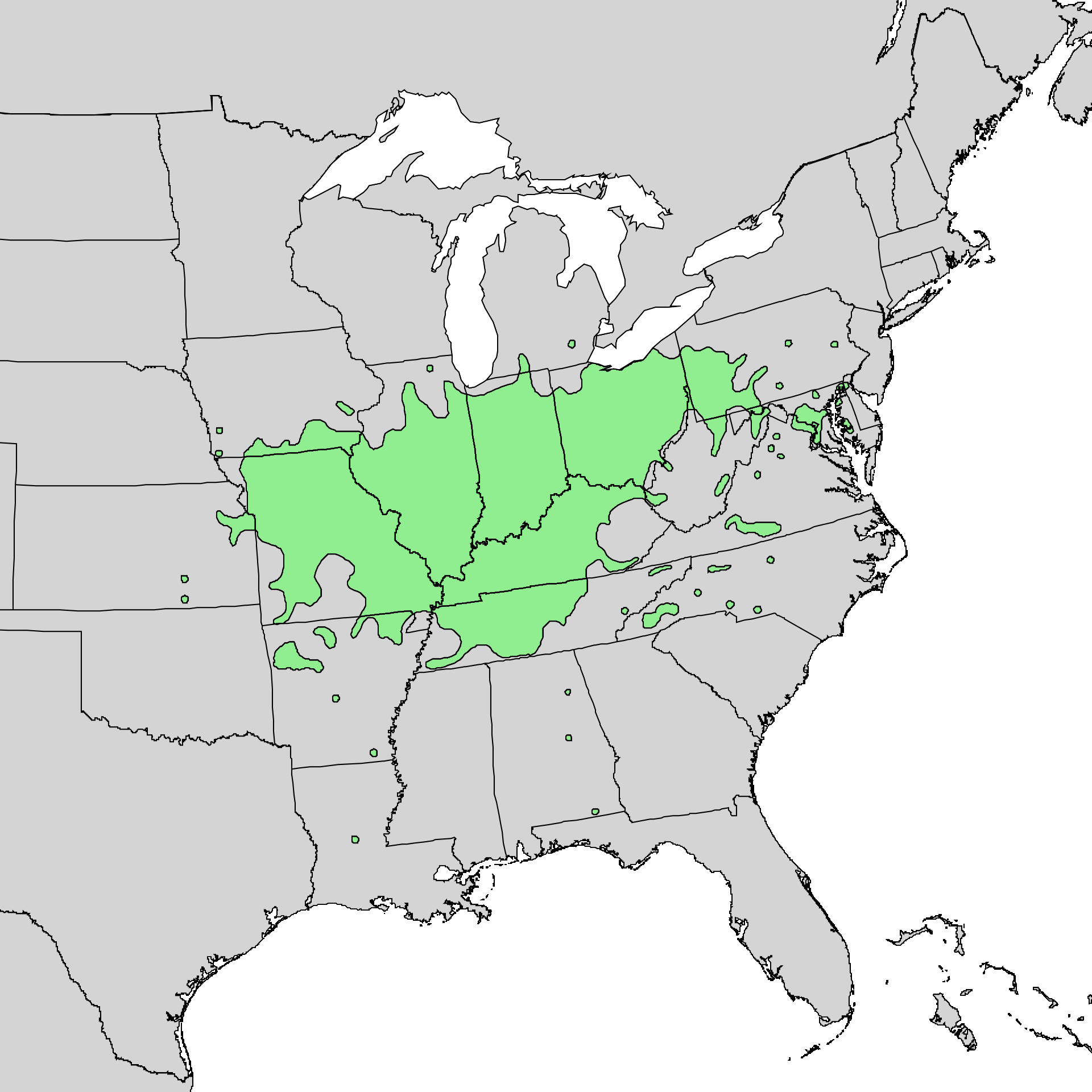 Quercus imbricaria (shingle oak) natural range map